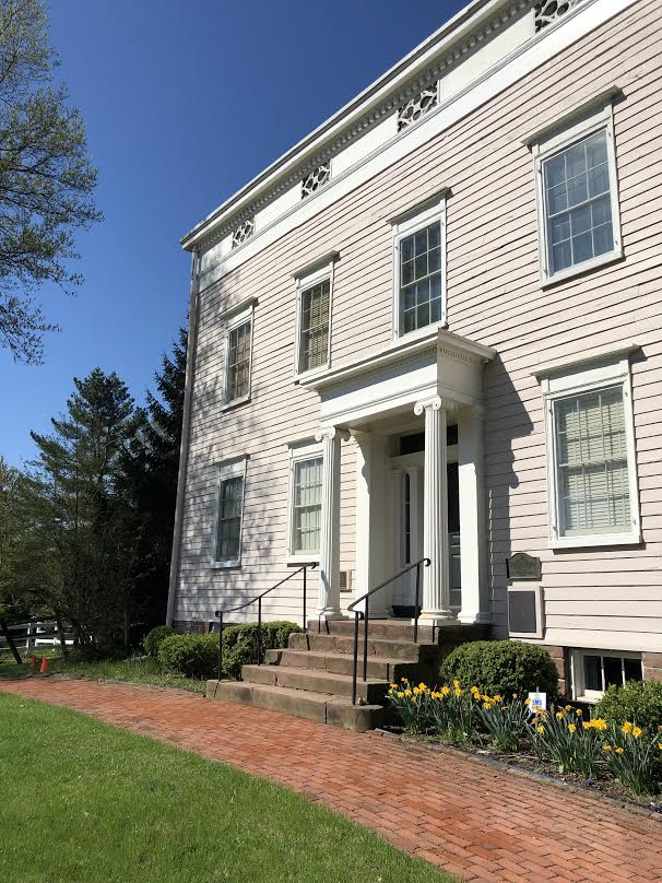 Outside of the Crane House and Historic YWCA located at 110 Orange Road, Montclair, NJ 07042. One of the historic buildings of the Montclair History Center.